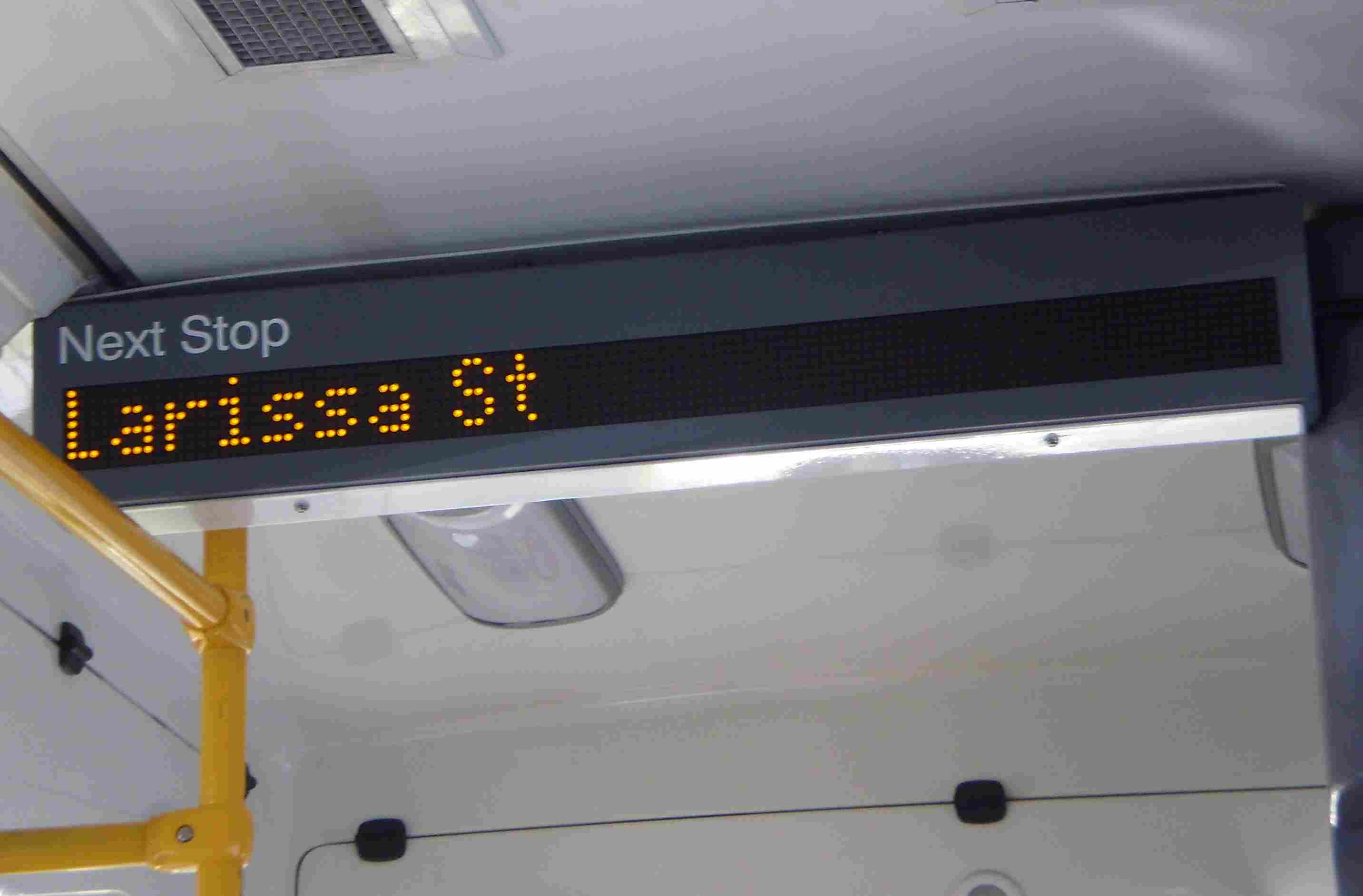 An electronic sign which states the next stop on es in Melbourne, Australia.